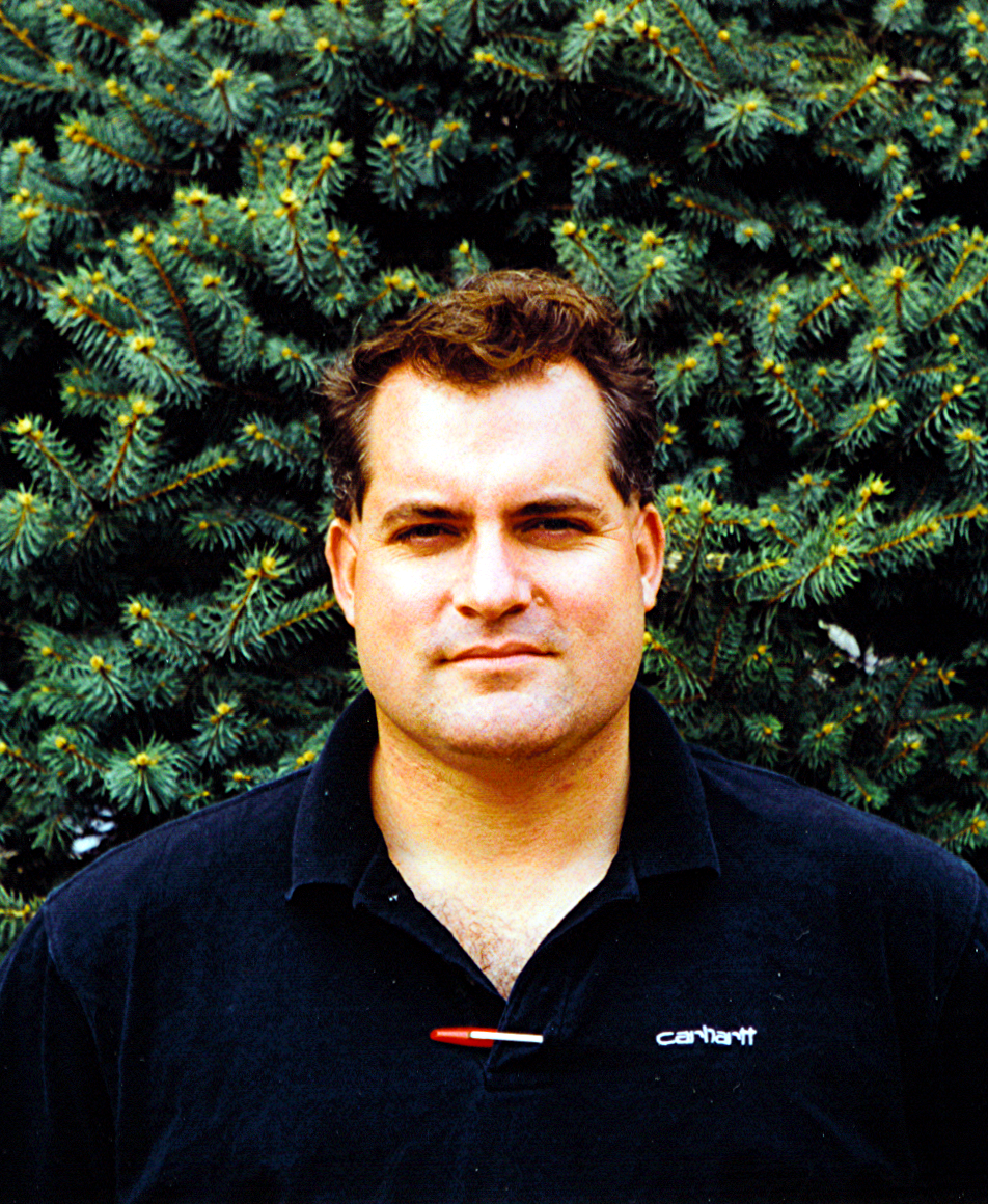 Dan Meyer, then General Counsel at Public Employees for Environmental Responsibility (PEER), against an evergreen back drop.